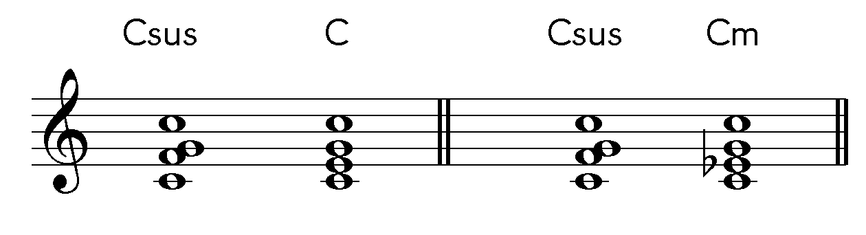 Resolutions of the sus chord to major or minor triad. See: File:Sus To Minor Or Major for wikipedia.mid